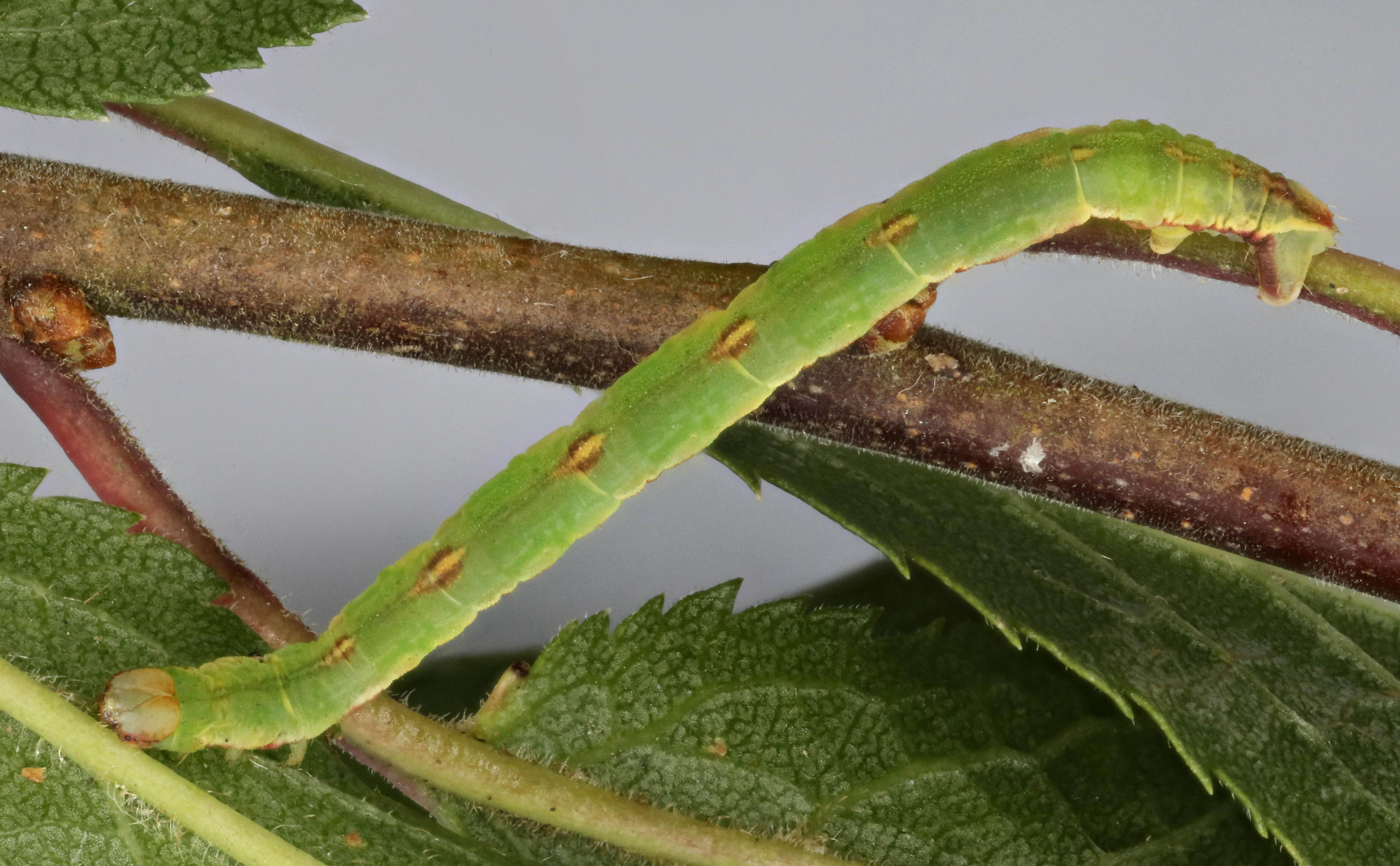 Eupithecia exiguata, Mottled Pug, Mariandyrys, North Wales, Sept 2016